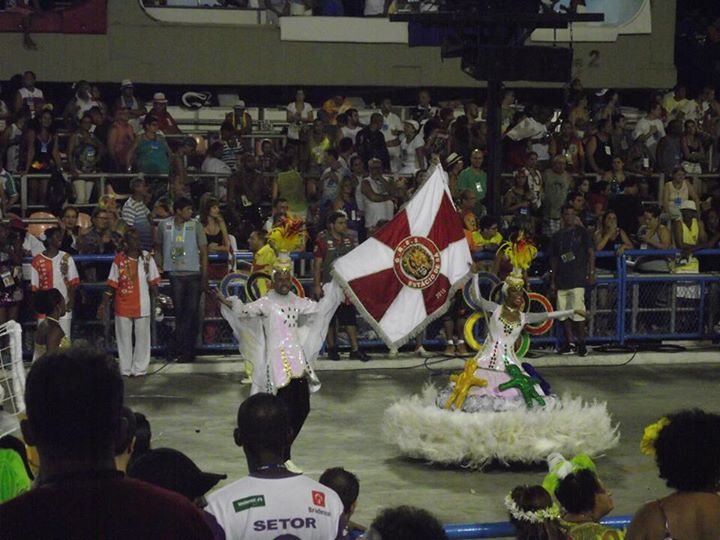 GRES Estácio de Sá